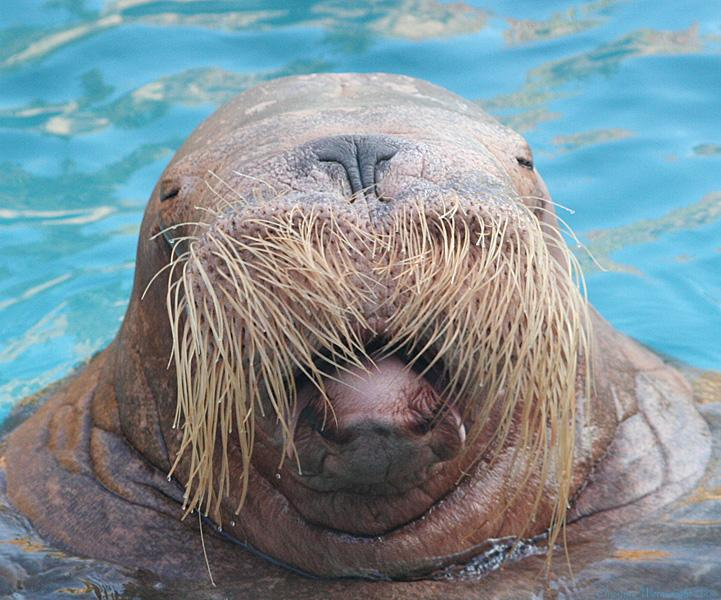 walrus